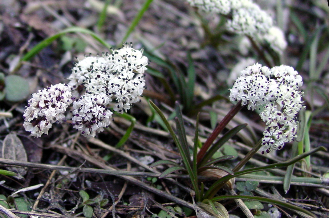 Orogenia linearifolia. City of Rocks National Preserve, Idaho, USA.